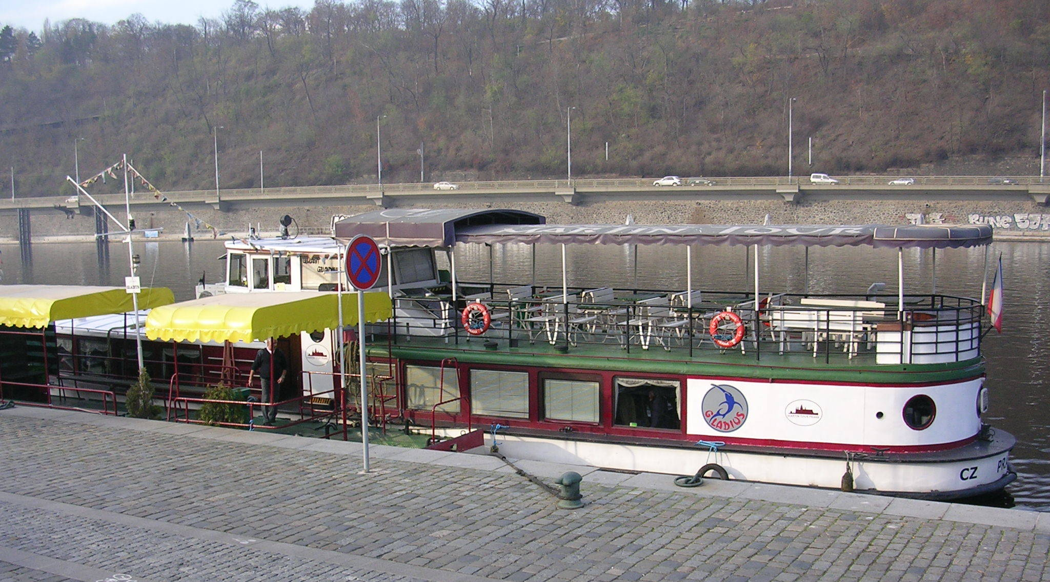 Prague, Gladius Ship.